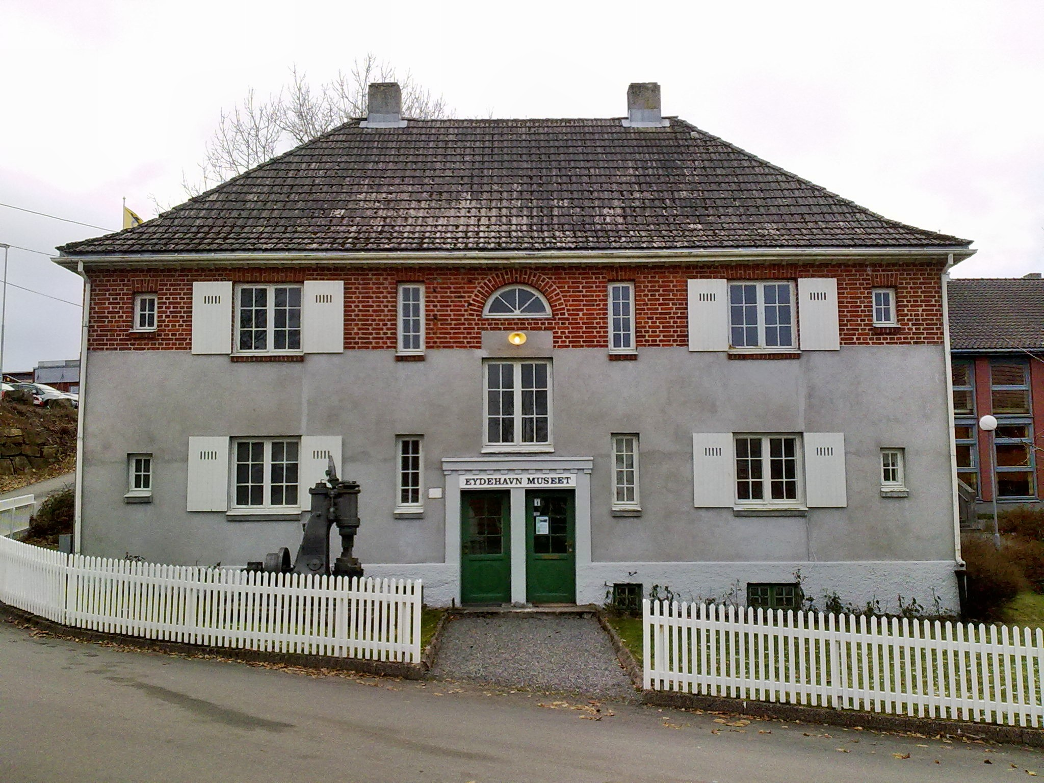 Eydehavn museum in Arendal